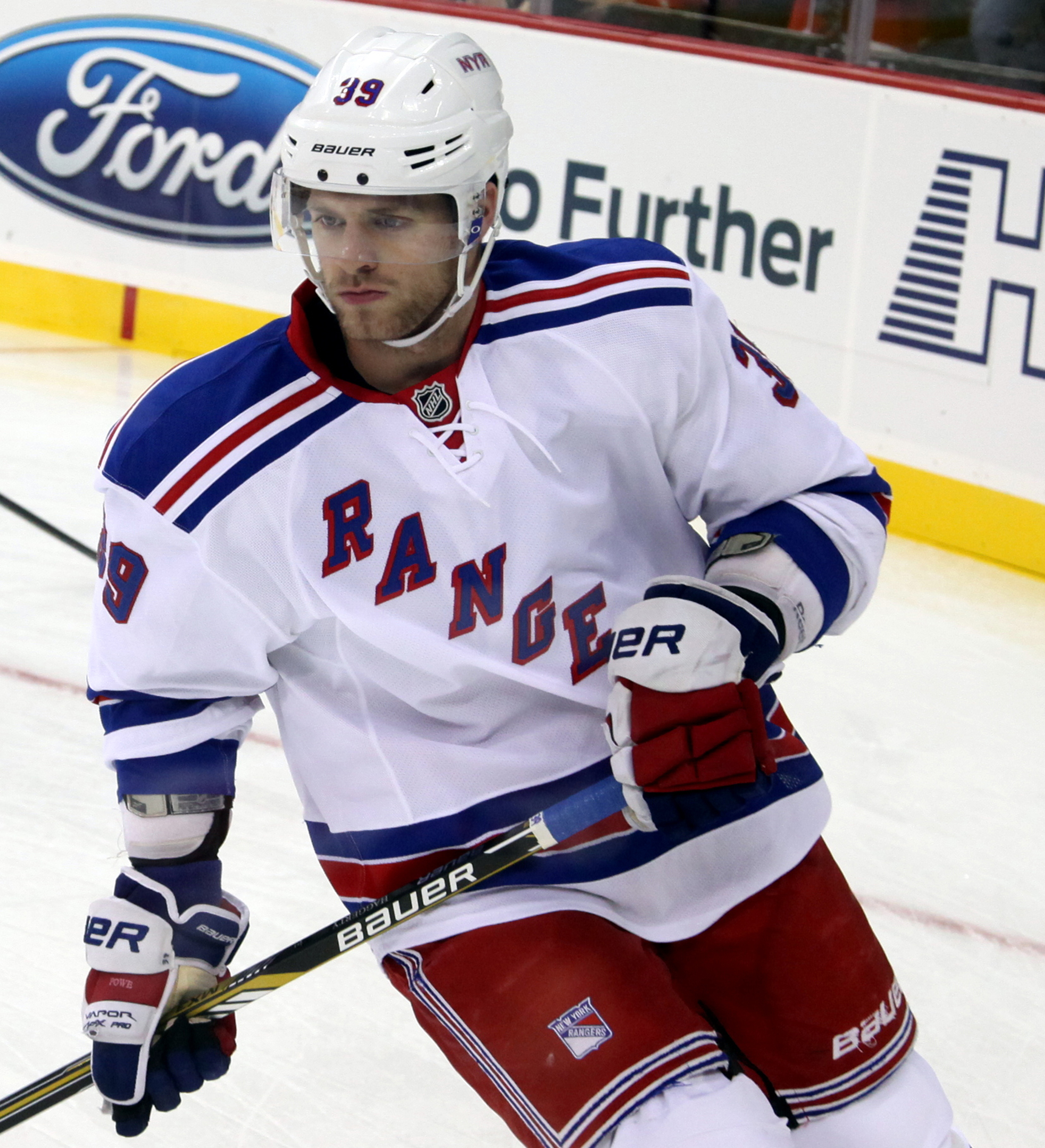 Haggerty as a Ranger in 2014.